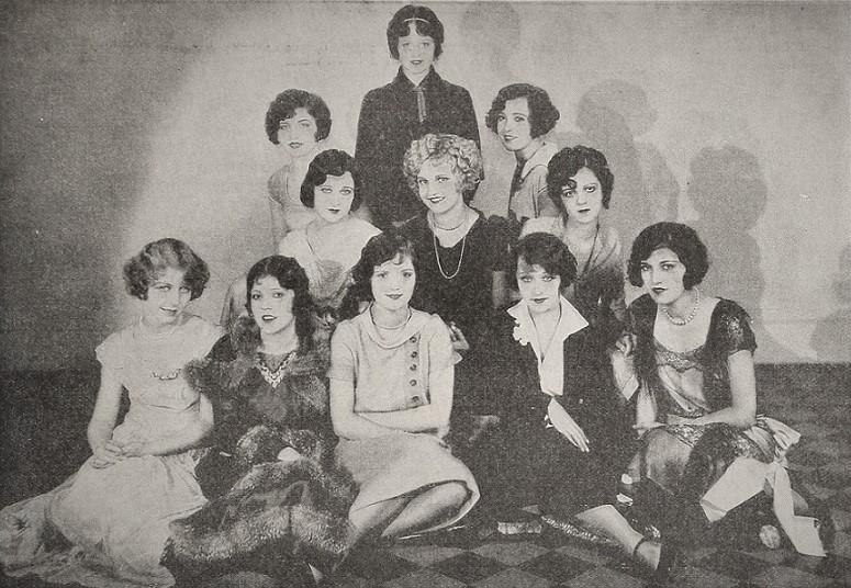 Dall'alto in basso e da sinistra a destra: June Marlowe, Evelyn Pierce, Lola Todd, Dorothy Revier, Ena Gregory, Joan Meredith, Violet La Plante, Olive Borden, Betty Arlen, Duane Thompson, Natalie Joyce